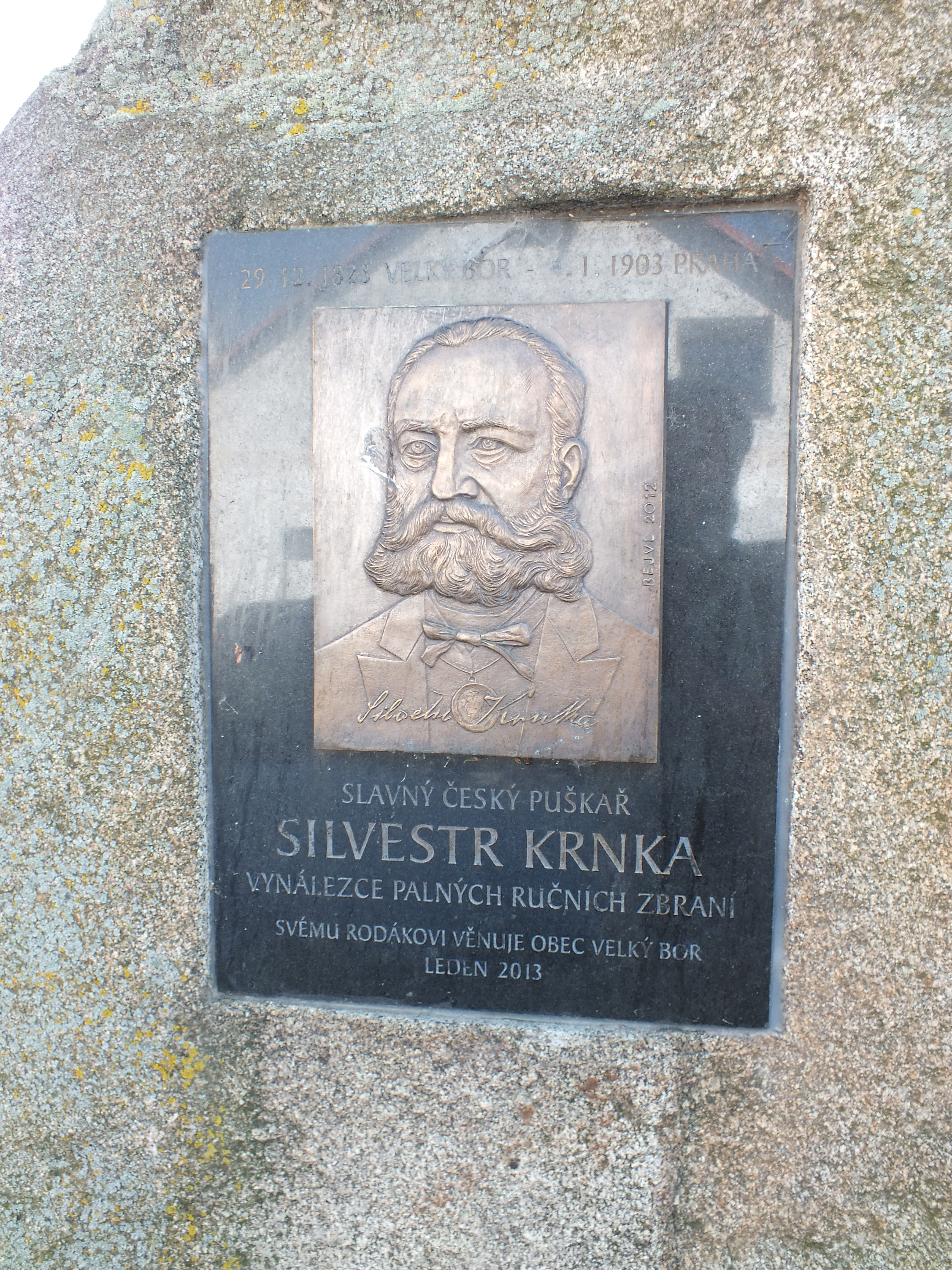 The memorial of Sylvestr Krnka in Velký Bor